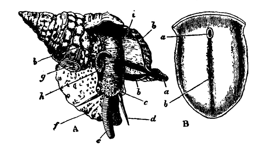 A, Triton variegatum, to show the proboscis or buccal introvert (e) in a state of eversion. a, Siphonal notch of the shell occupied by the siphonal fold of the mantle-skirt (Siphonochlamyda). b, Edge of the mantle-skirt resting on the shell. c, Cephalic eye. d, Cephalic tentacle. e, Everted buccal introvert (proboscis). f, Foot. g, Operculum. h, Penis. i, Under surface of the mantle-skirt forming the roof of the sub-pallial chamber. B, Sole of the foot of Pyrula tuba, to show a, the pore usually said to be “aquiferous” but probably the orifice of a gland; b, median line of foot.